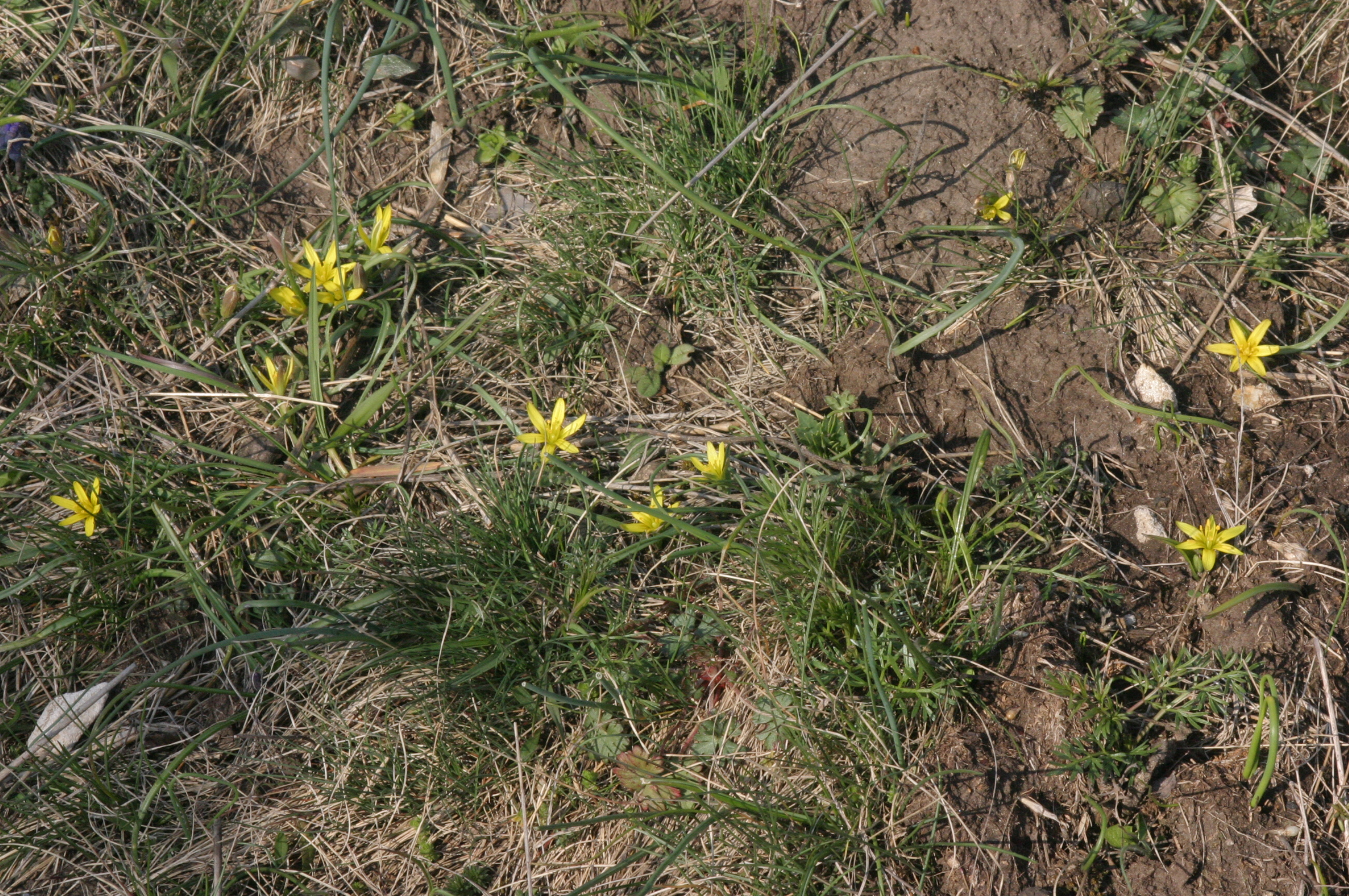 Gagea pusilla